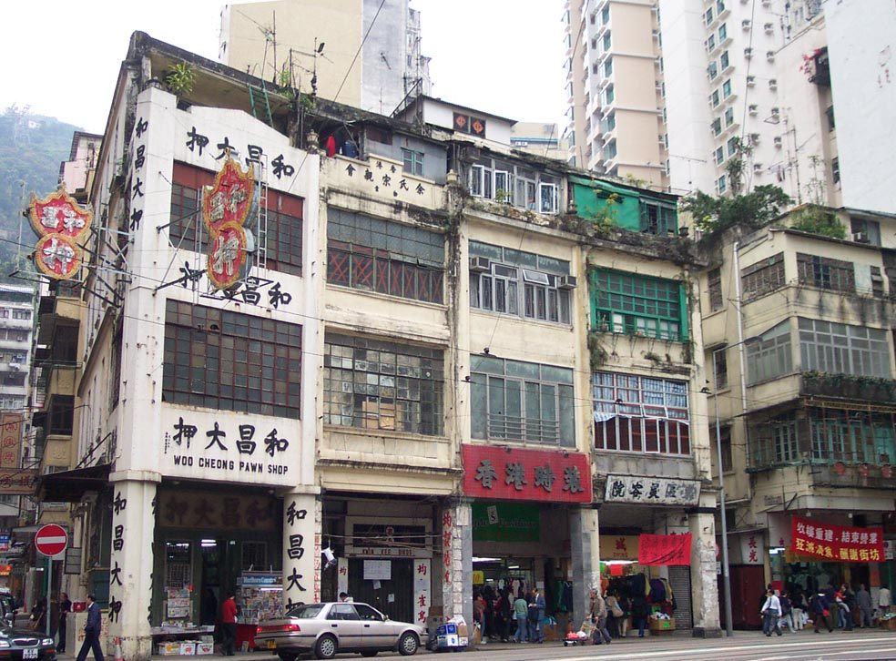 Old-fashioned shops in Wan Chai, Hong Kong Date:23 March, 2003